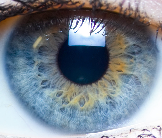 Iris close-up